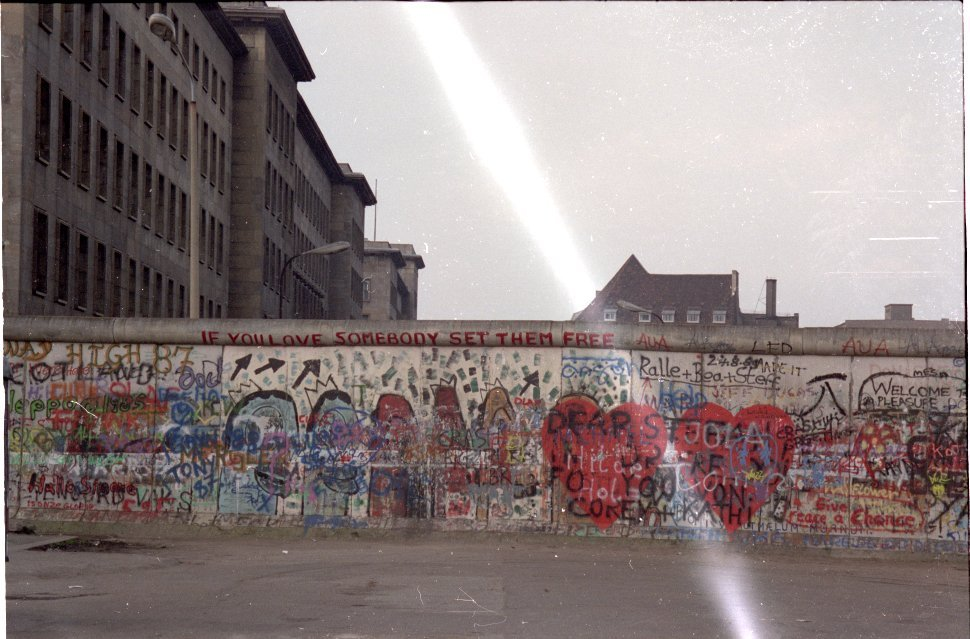 A view of a section of the Berlin Wall in 1988 showing an abandoned building on the East Berlin side.